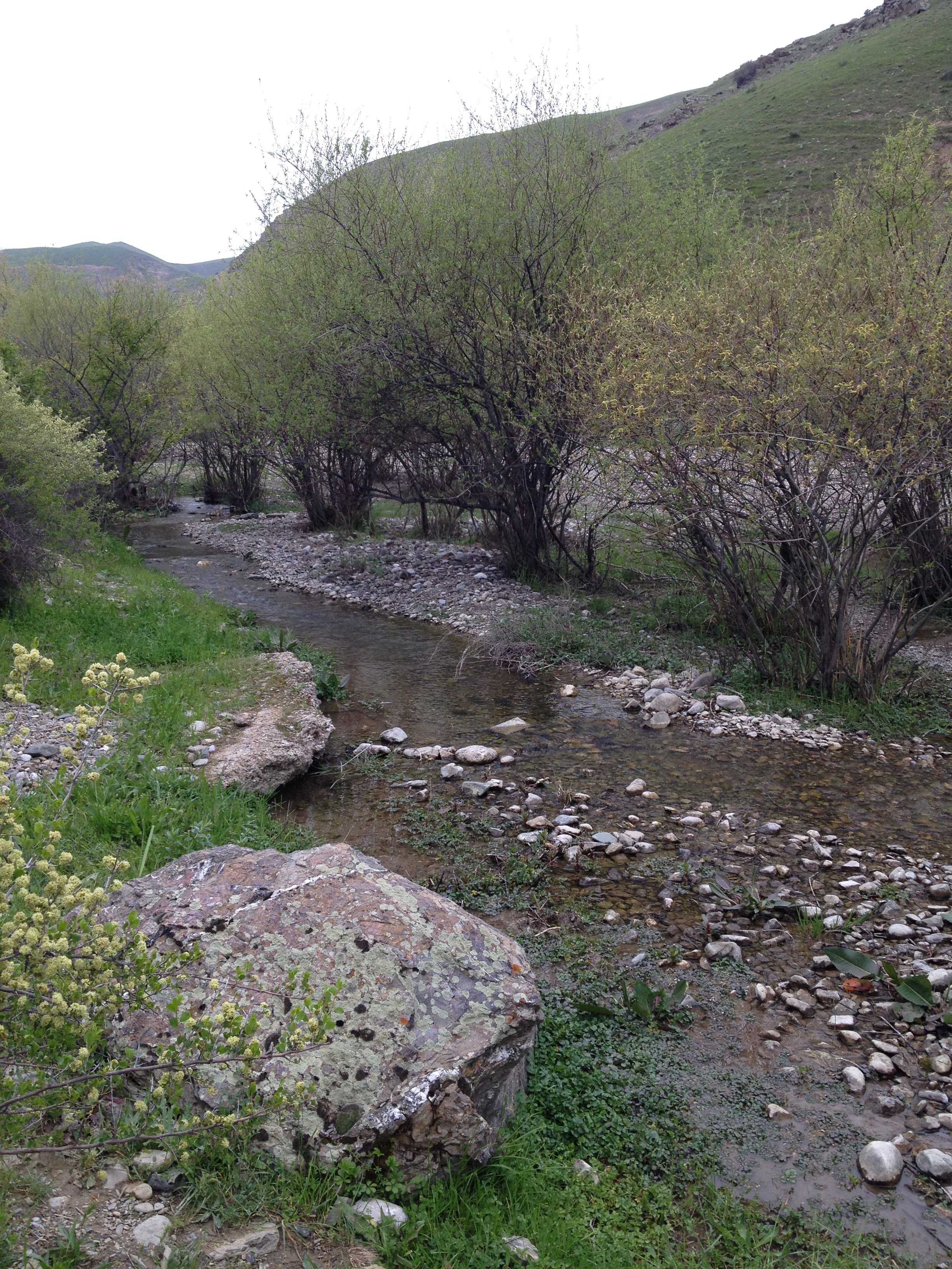 Zaamin-su lower Zaamin water reservoir